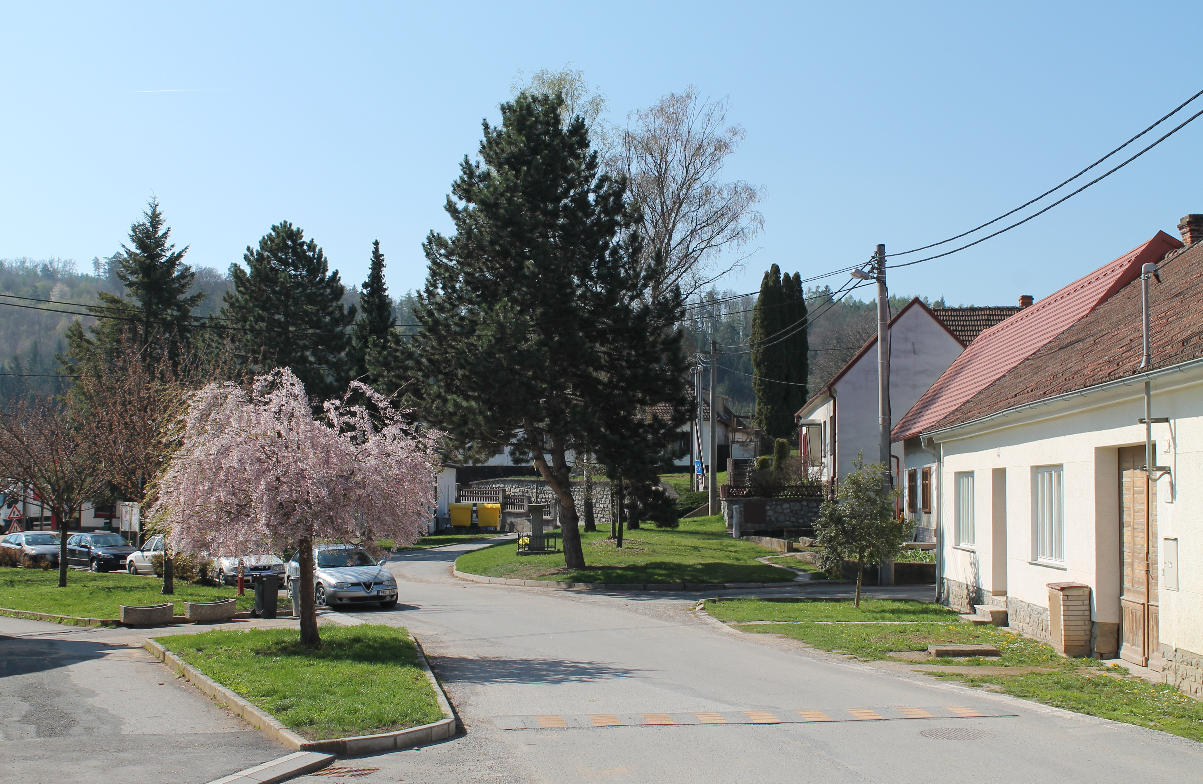 Masarykovo náměstí, Řícmanice, Brno-Country District, Czech Republic